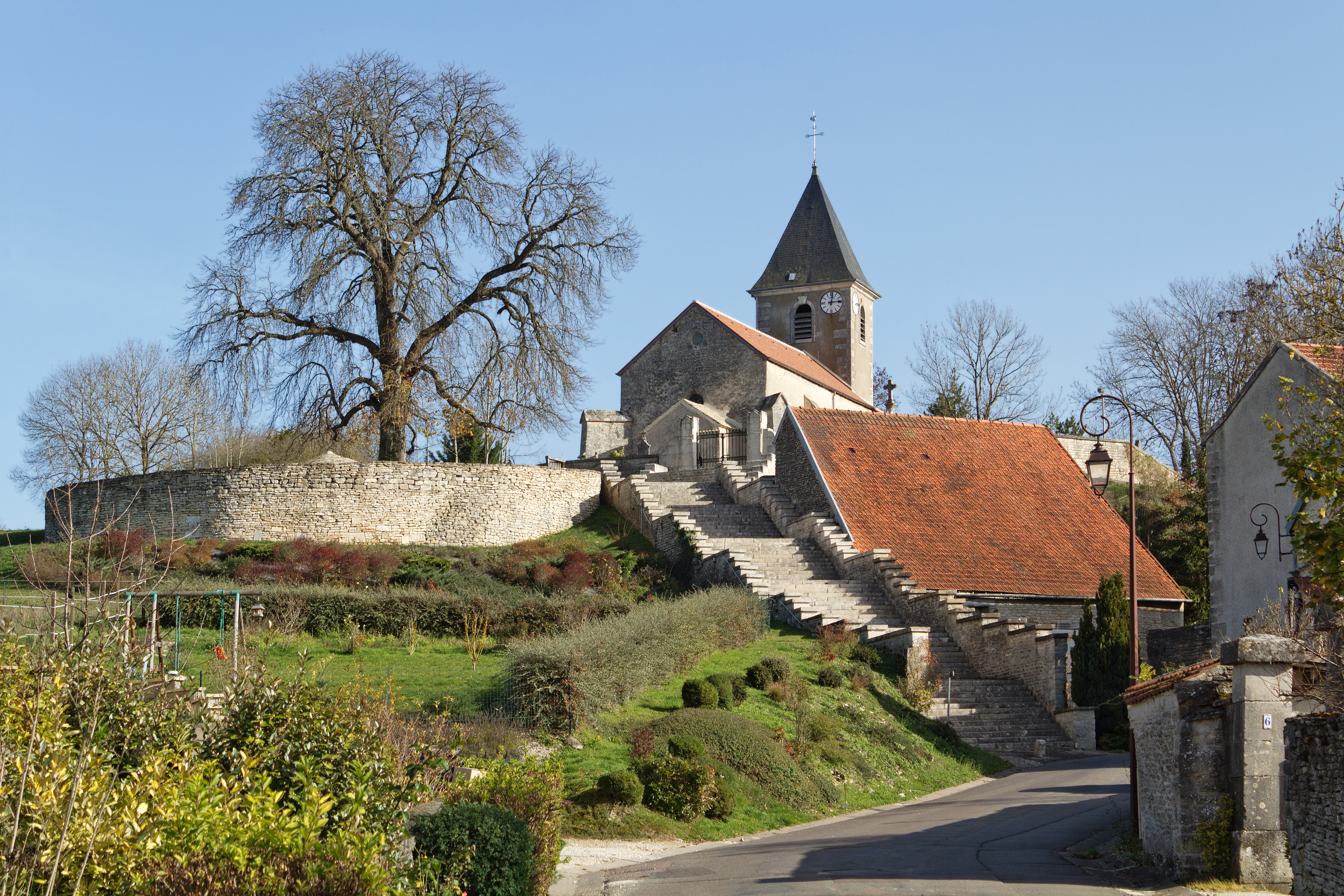 St Corneille's church in Diénay